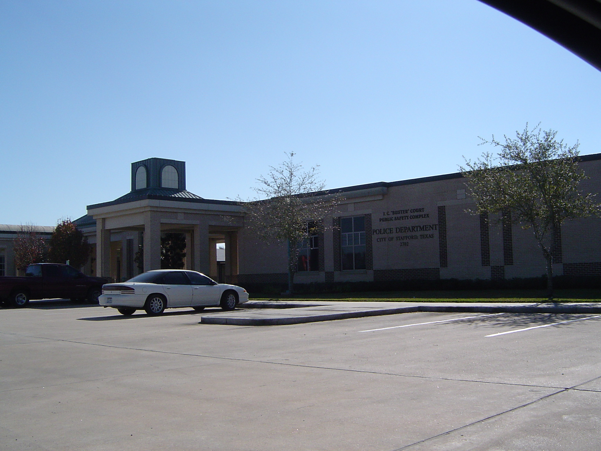 A police station